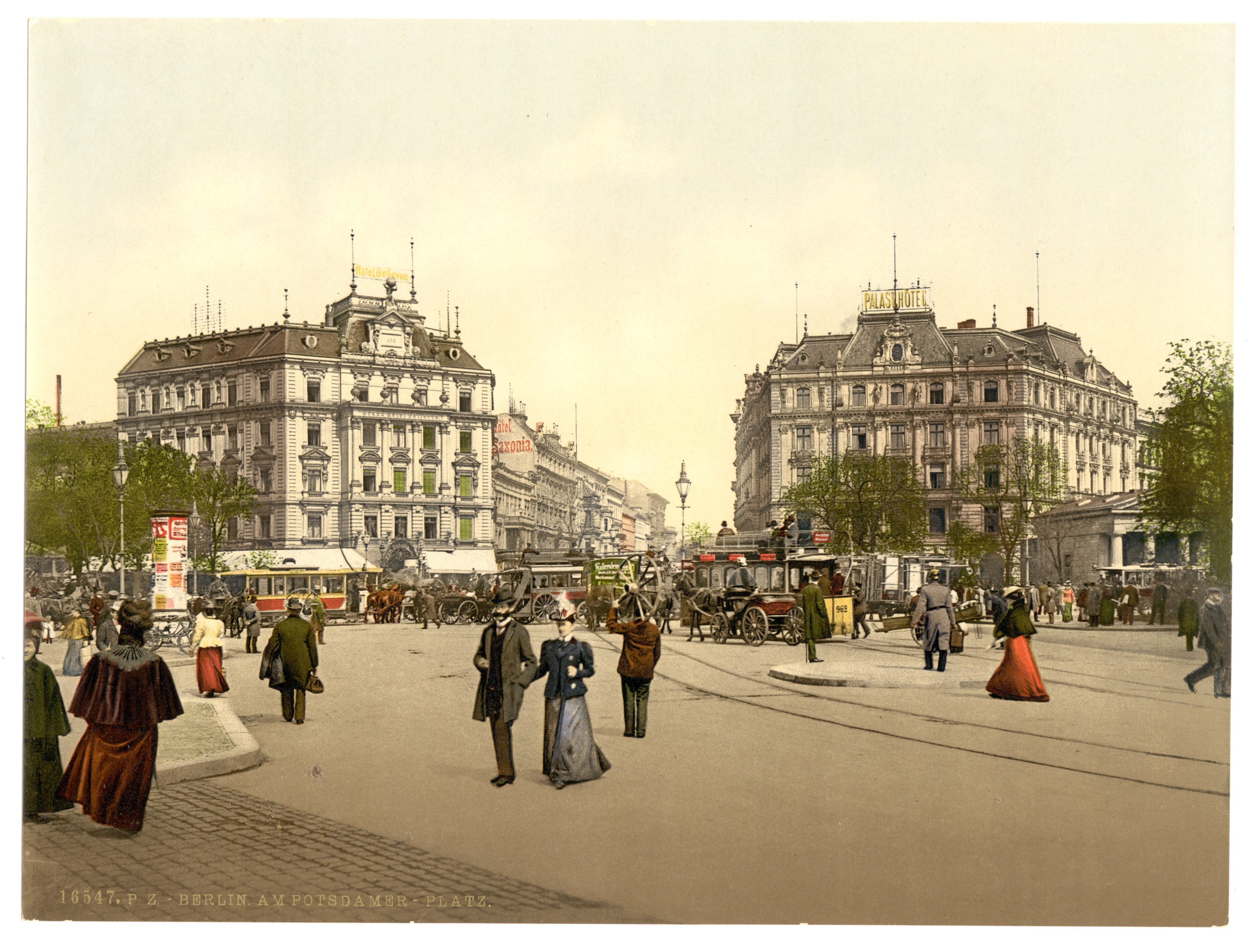 Title from the Detroit Publishing Co., catalogue J-foreign section. Detroit, Mich. : Detroit Photographic Company, 1905..; Print no. "16547".; Forms part of: Views of Germany in the Photochrom print collection.